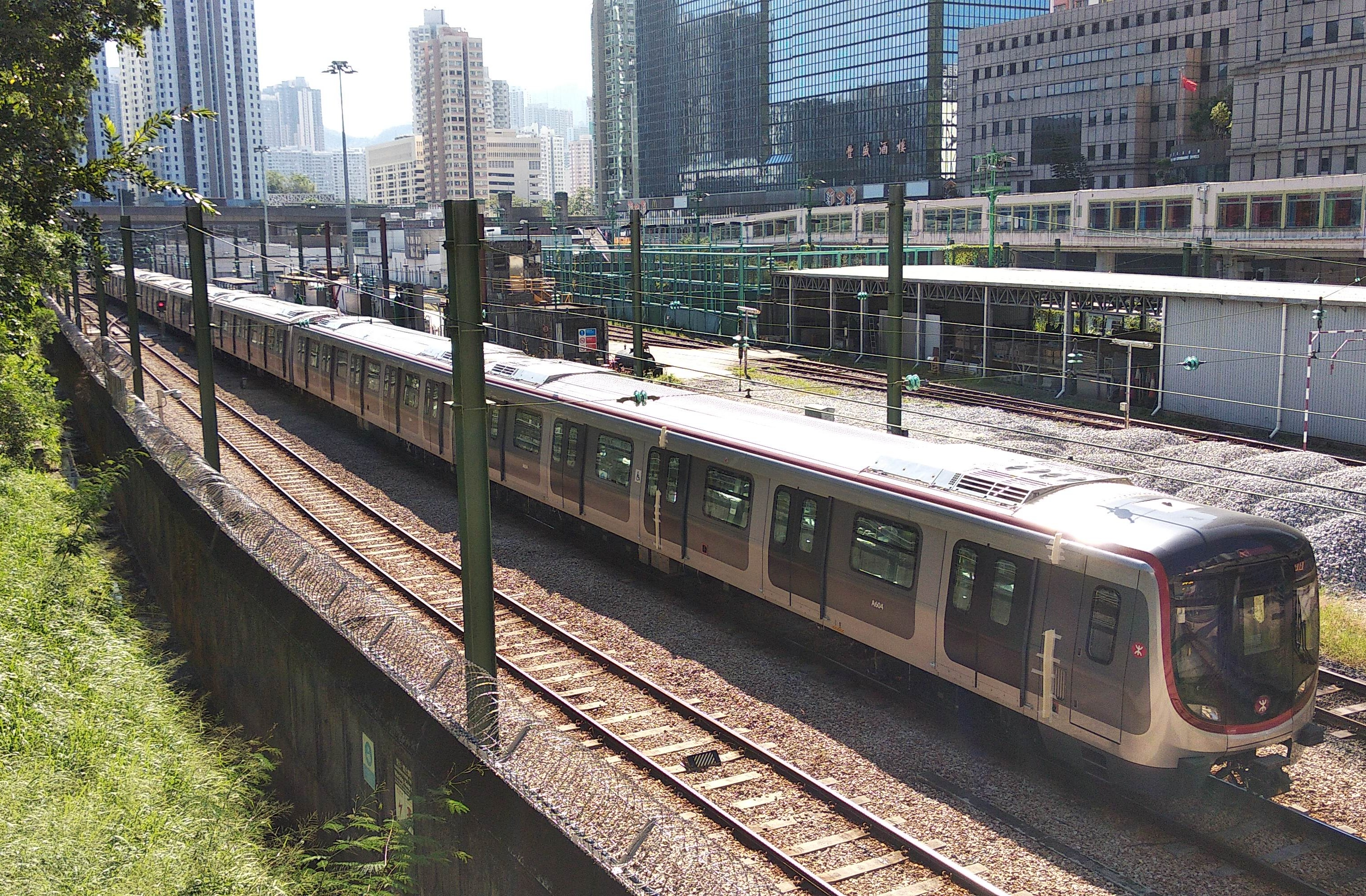 The second group of MTR Urban Lines Vision Trains (A603/A604) is being tested in Tsuen Wan Depot on 6th November, 2018.